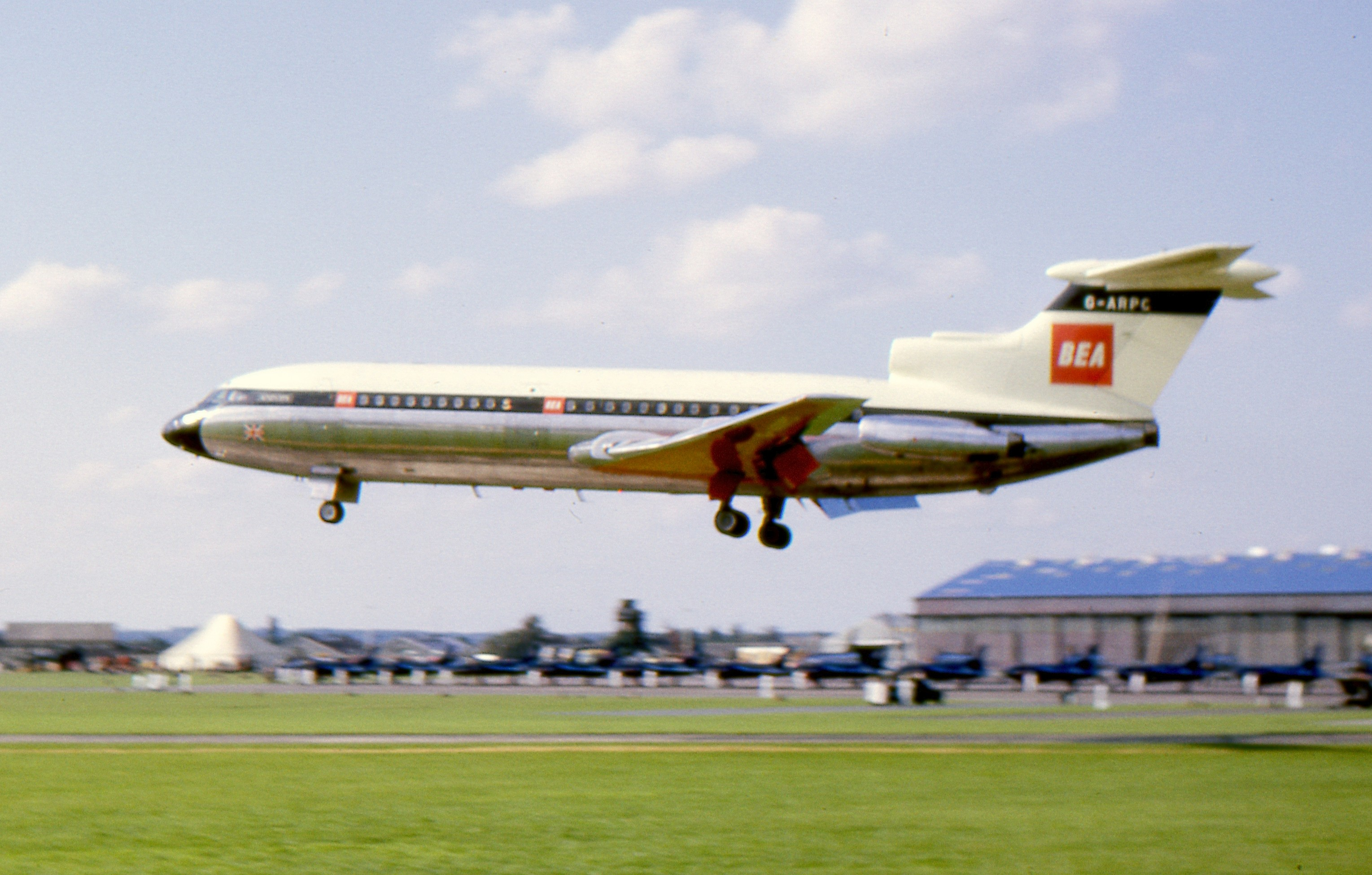 de Havilland Trident at the SBAC show, Farnborough 8 September 1962. G-ARPC was the third aircraft of the first series and had not been flying long as the first Trident only flew on 9 January 1962.